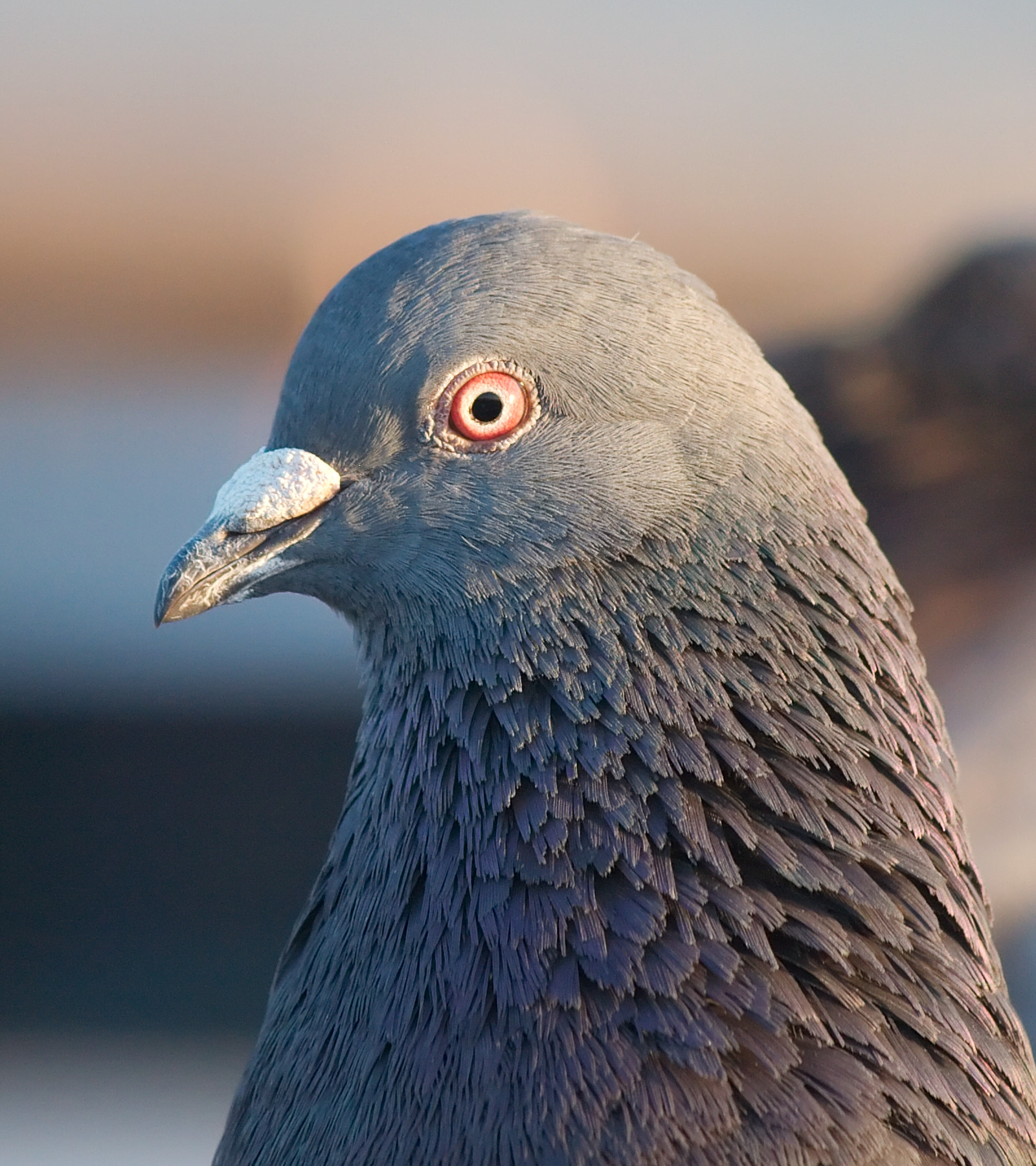 A feral rock pigeon (Columba livia), taken in Santa Barbara, California, USA.